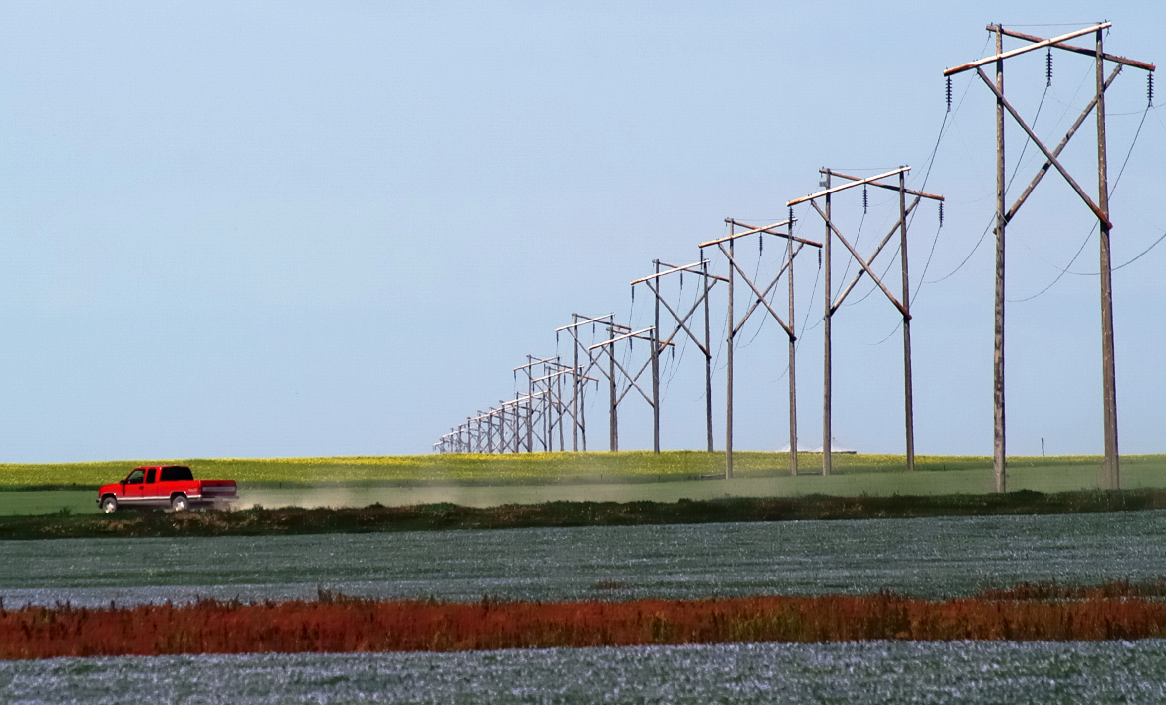 Fields of Canola and Flax on the Saskatchewan Prairie.